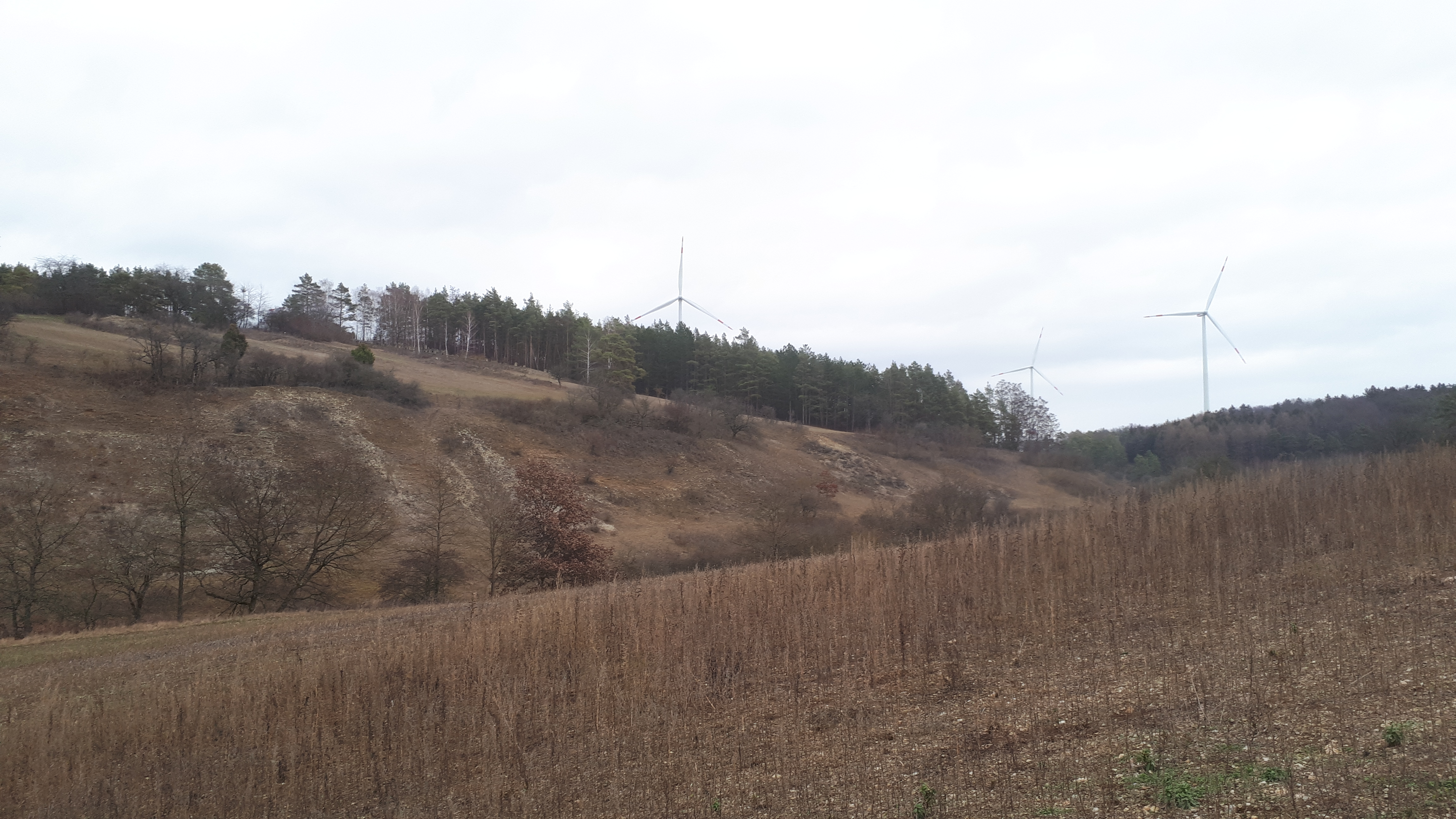 Nature reserve "Trockenhänge" near Unsleben, Bavaria, Germany